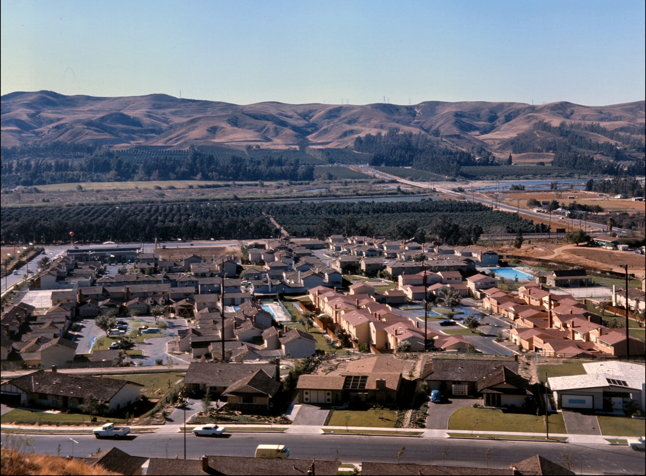 Photo shows new development taking place in Yorba Linda area, as well as undeveloped land across the Santa Ana River in what is now Anaheim Hills.